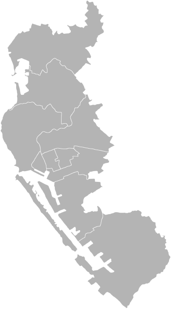 Kaoshuing City Subdivisions